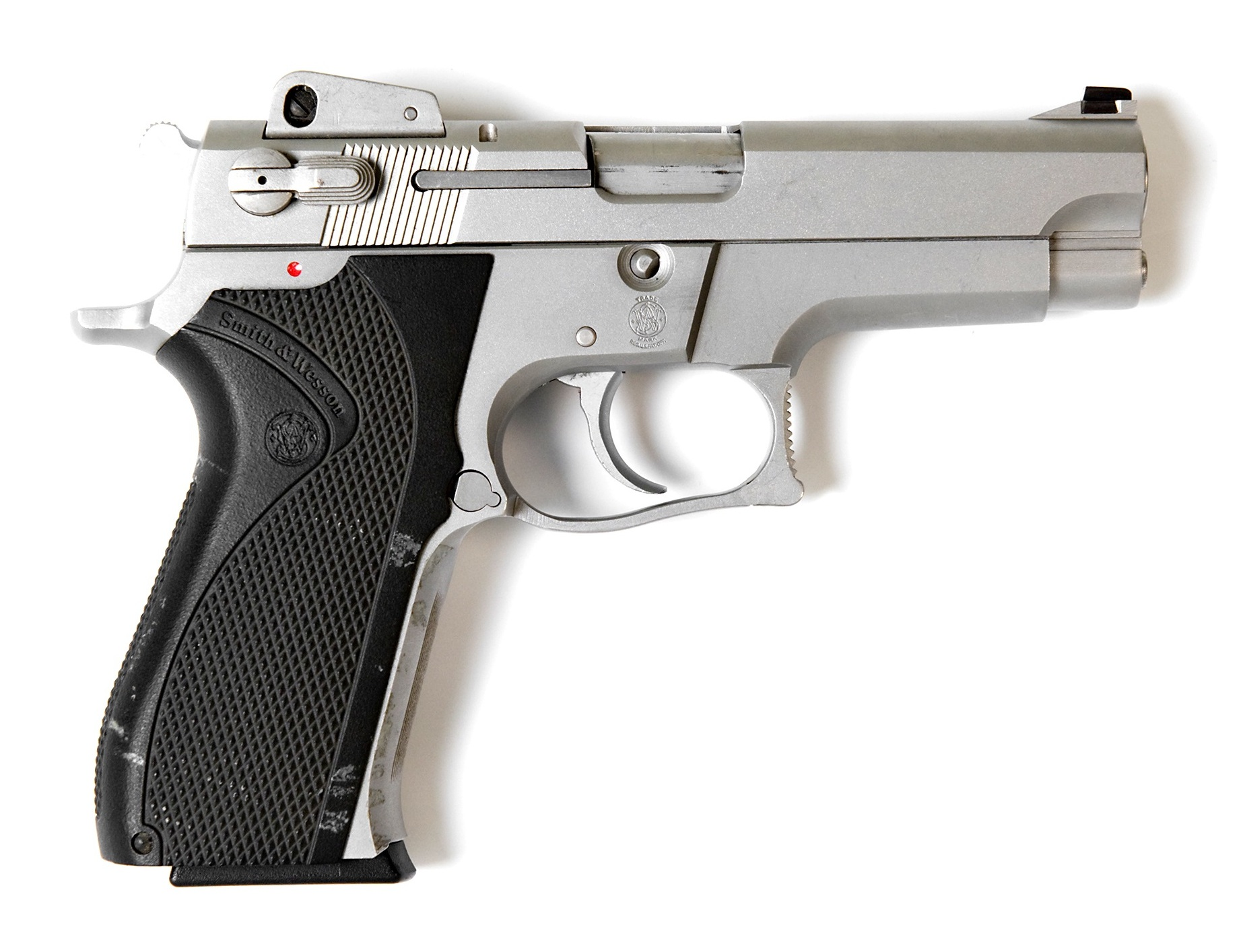 Picture of Smith and Wesson Model 5906 9mm Para Pistol